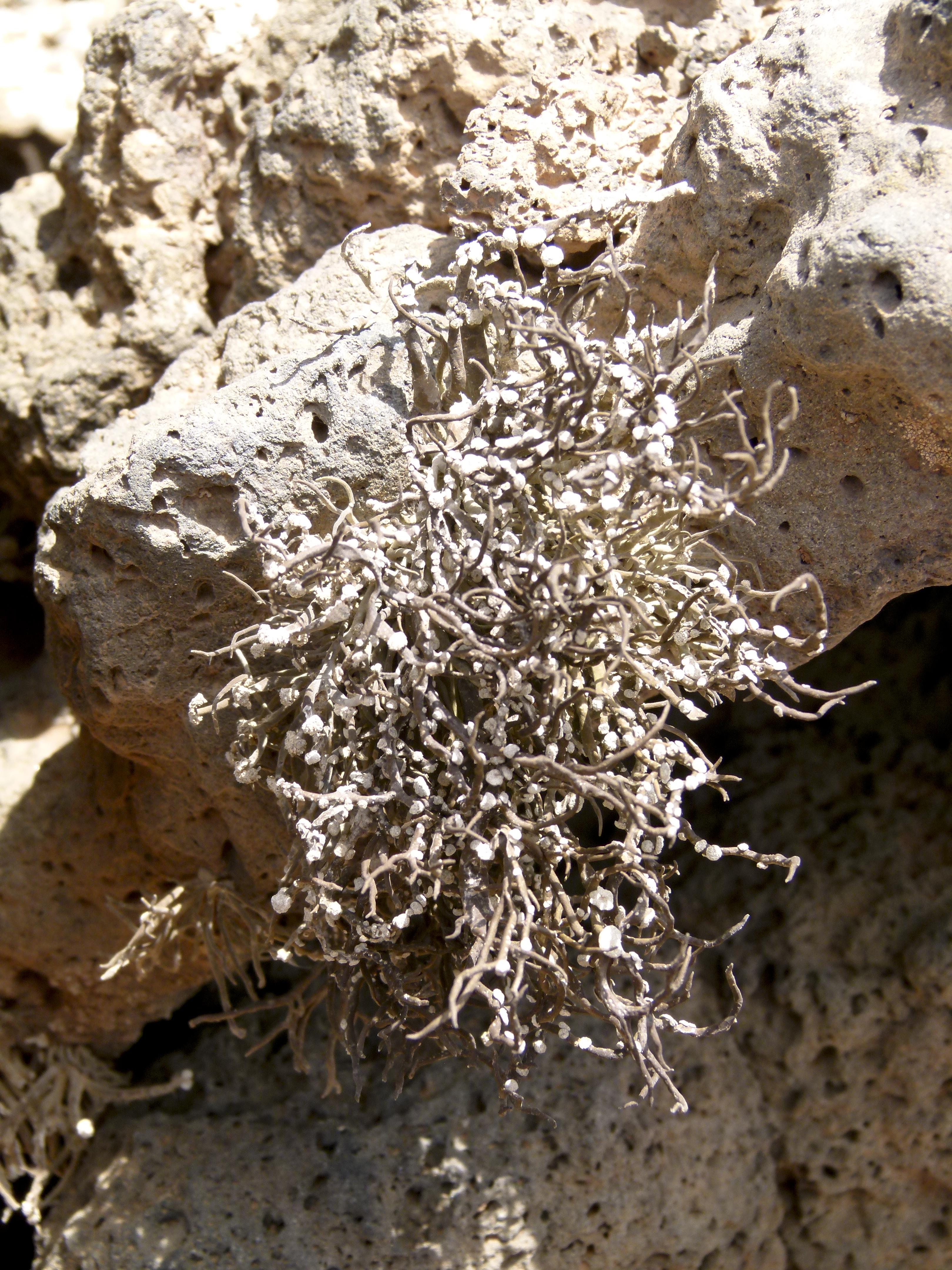 Orchil/Archil (Rocella tinctoria), Montana Colorada, Fuerteventura, Canary Islands, Spain